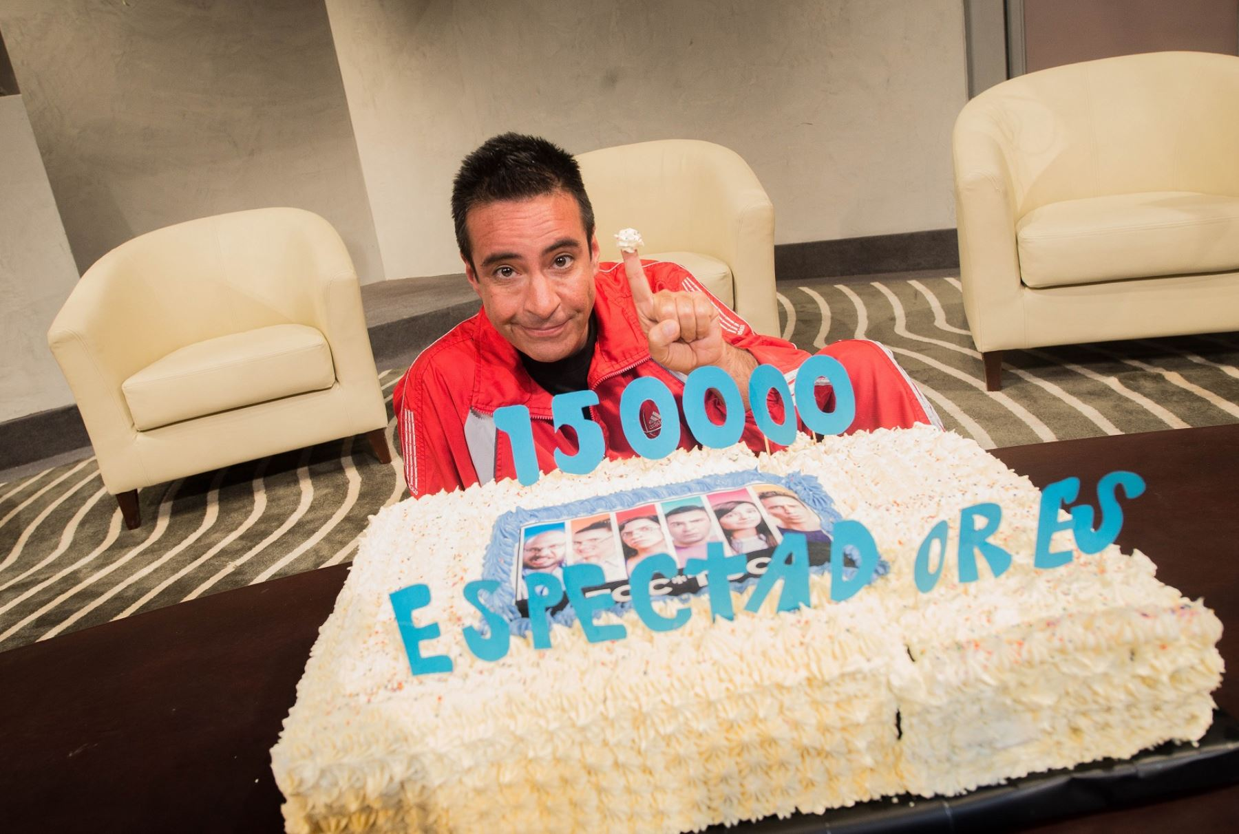 Carlos Carlos es CAMILO en "Toc Toc"